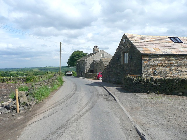 Ned Lane, Tong Holme Bank Farm on the right is becoming a group of houses.